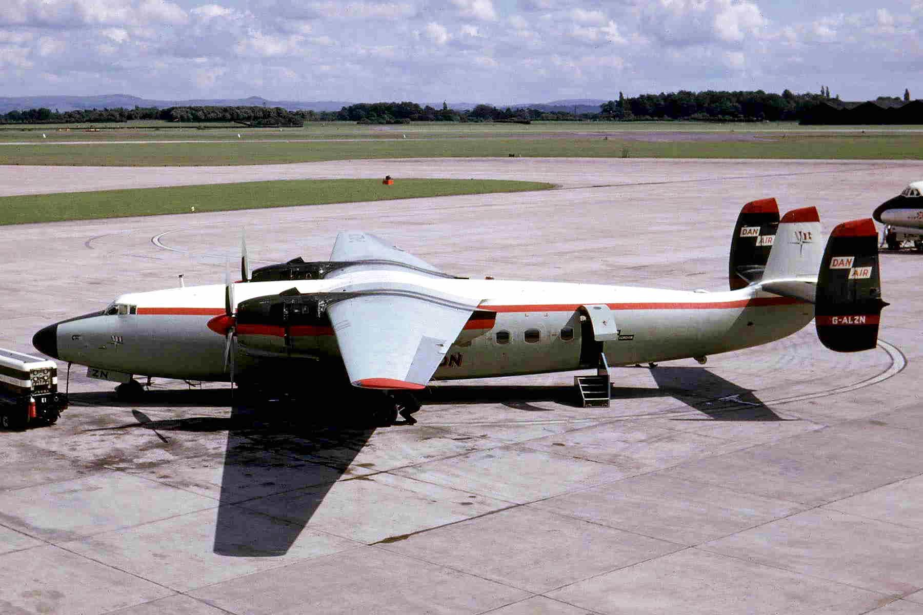 Dan-Air operated eight Ambassadors in the 1960's on passenger charters and scheduled services